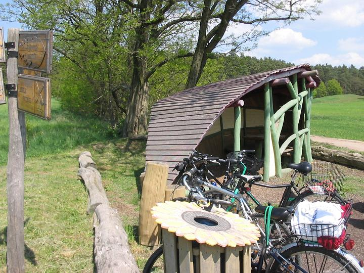 Part of Flaeming-Skate in Brandenburg, Germany. The Flaeming-Skate is a 190 kilometres long way especially for inline roller skating and bicycles in the district Teltow-Fläming. Here picnic area nearby the village Ließen, part of the town Baruth (Mark).